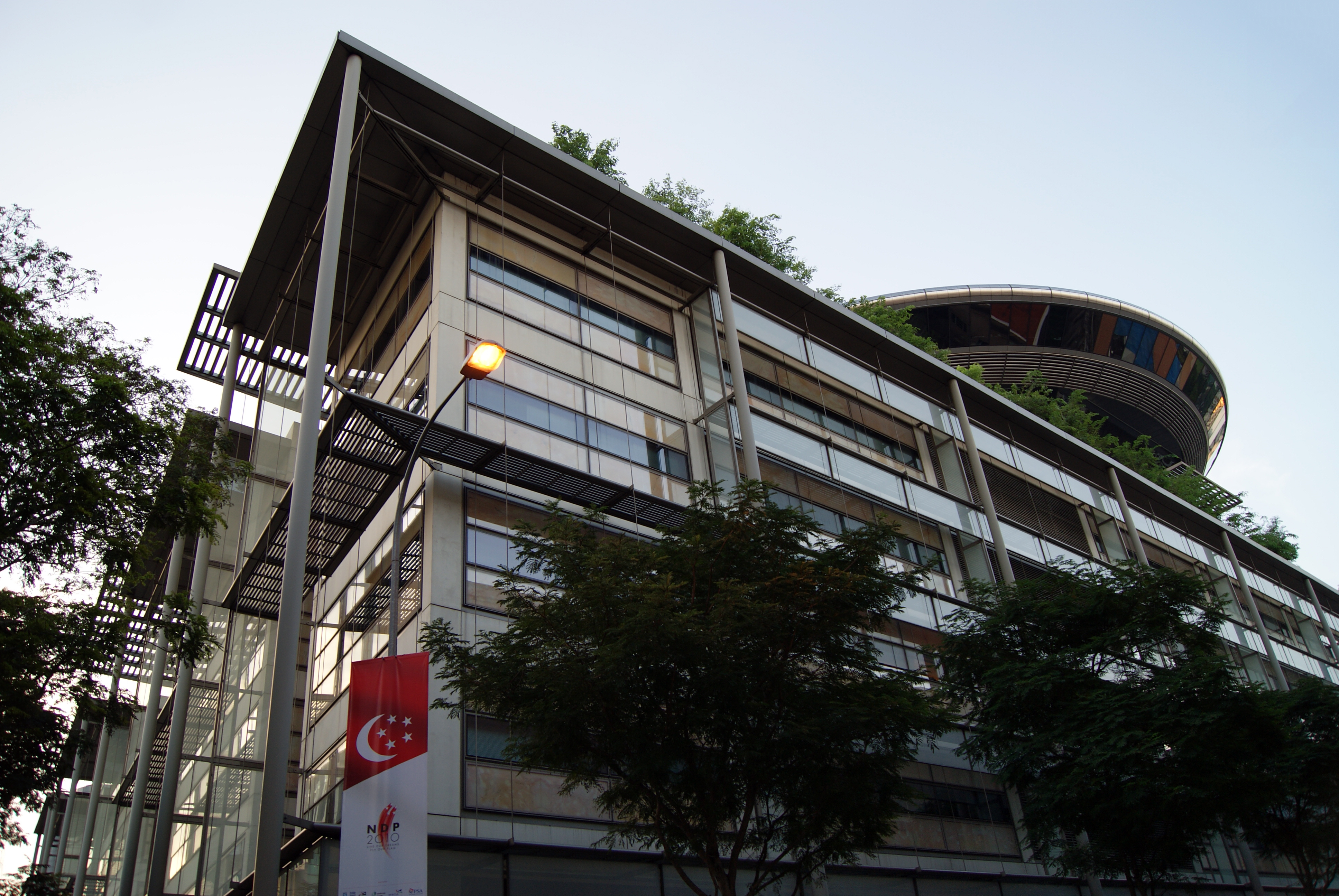 The corner of the Supreme Court of Singapore at the junction of Parliament Lane and Supreme Court Lane.